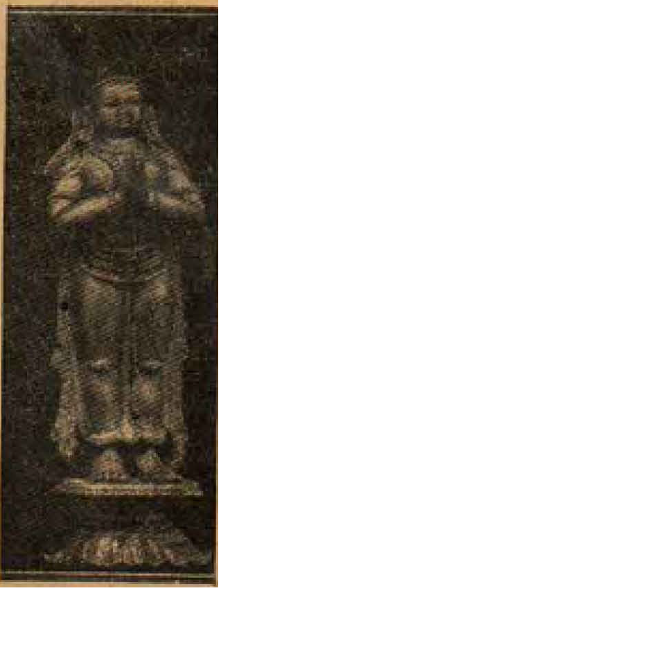 ఎళ్పఘ (అభూతచరుడు)